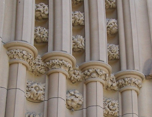 Sydney, St Marys Roman Catholic Cathedral, carving near the west door